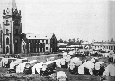 Pretoria, named after the Voortrekker leader, Andries Pretorius, was founded in 1855. This photograph shows the Church Square in Pretoria around 1900, during a quarterly 'Nagmaaldiens', attended by Boers from far and wide. Hence the many wagons ('kakebeenwaens') which are stationed around the church. (Picture Staatsinligtingsdiens Pretoria)